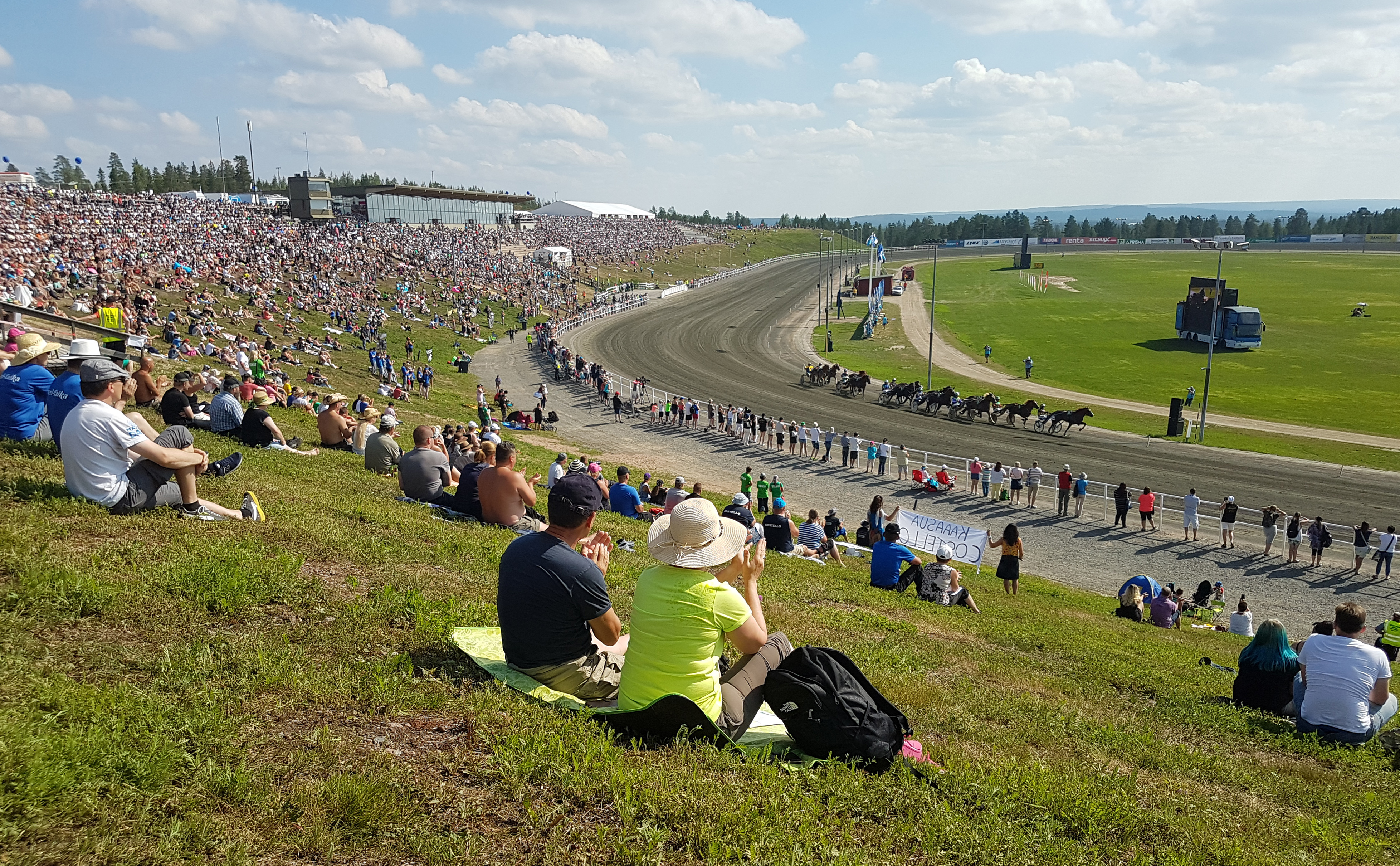 Championships of the Finnish horses at Rovaniemi, Mäntyvaara racetrack.